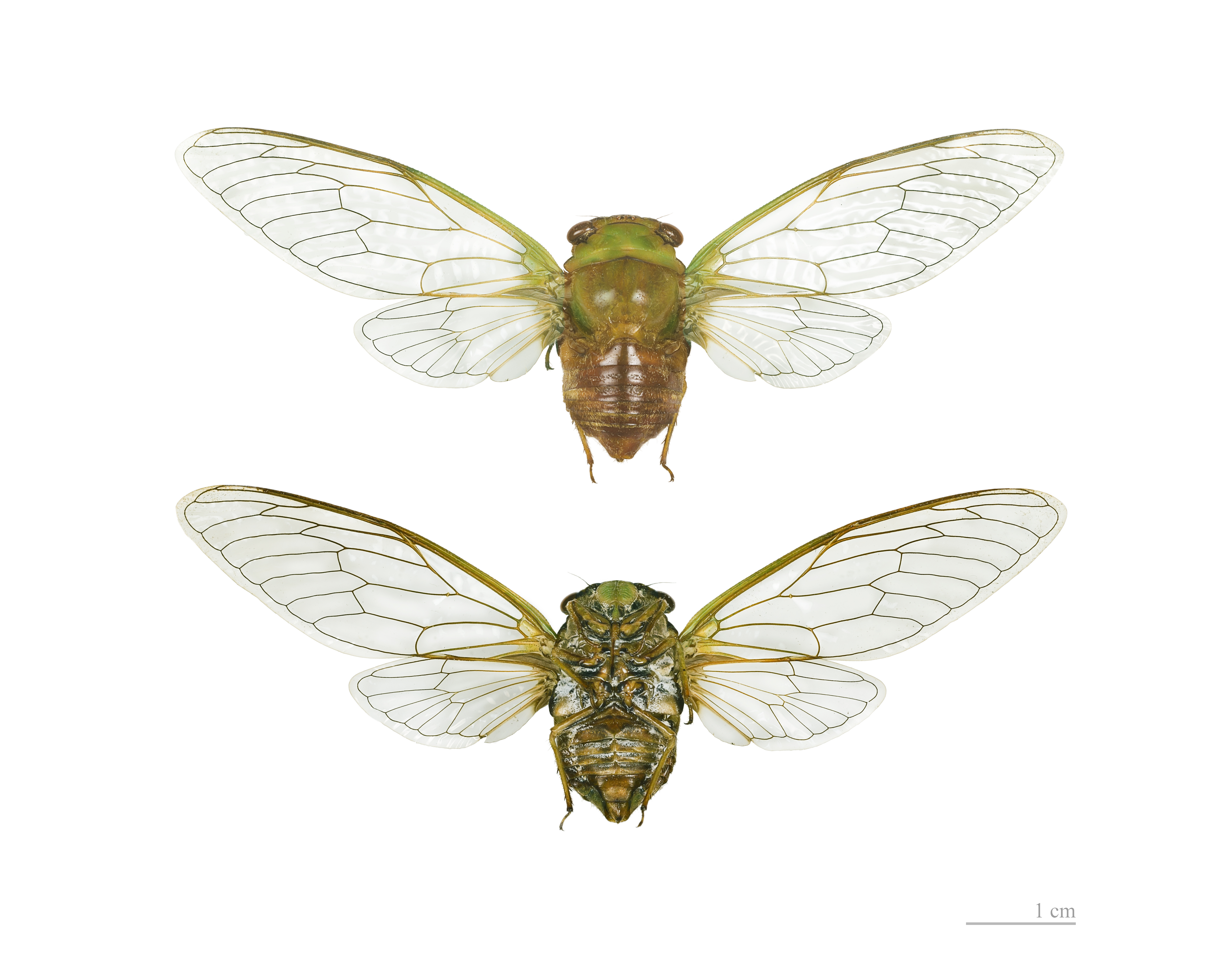 Flight position - Two views of same specimen Locality : crossroads, "Piste Risquetout, route Saut Léodate", Montsinéry, French Guianna.